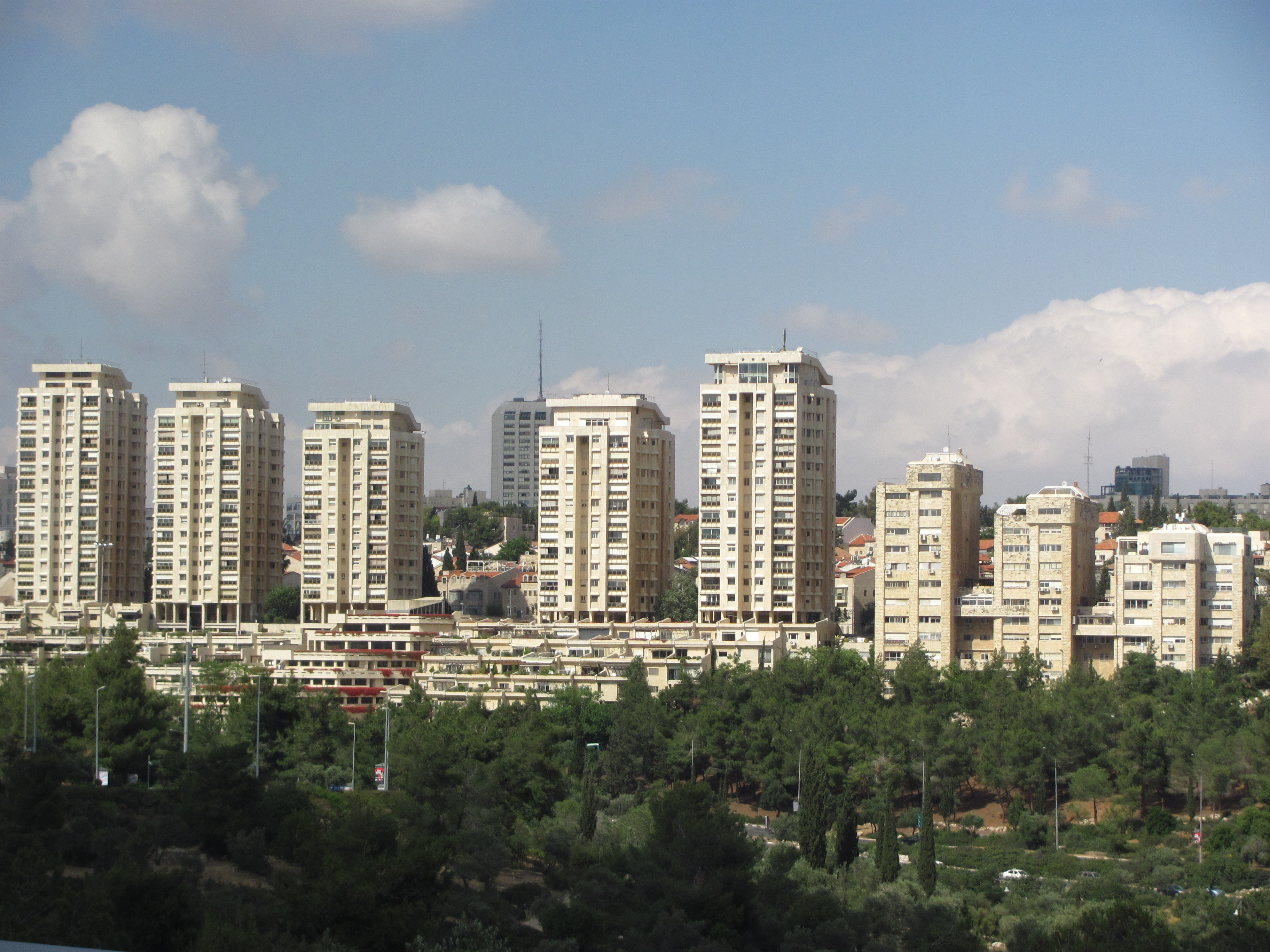 View of 5 towers and terraced villas of Kiryat Wolfson (left), and adjacent high-rises (right), from the Israel Museum.